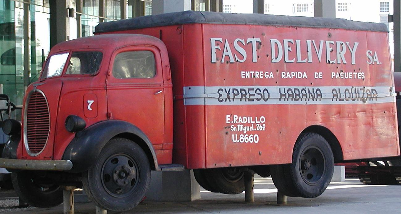 Bullet-riddled truck used in the attack on the Presidential Palace in Havana by the "Directorio Revolucionario" in 1957.